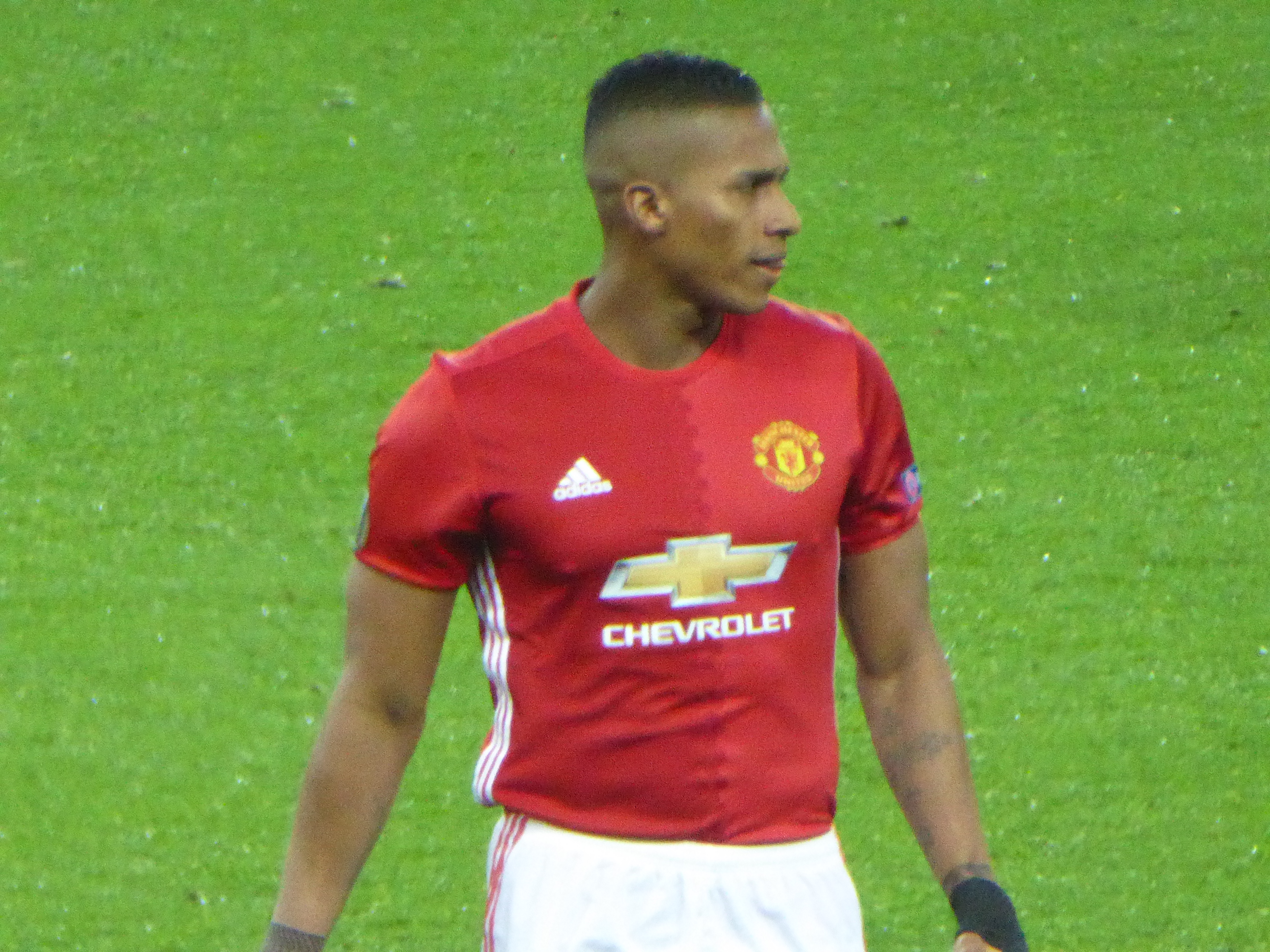 Manchester United v FC Rostov (1-0), UEFA Europa League, Old Trafford, Manchester, 16 March 2017